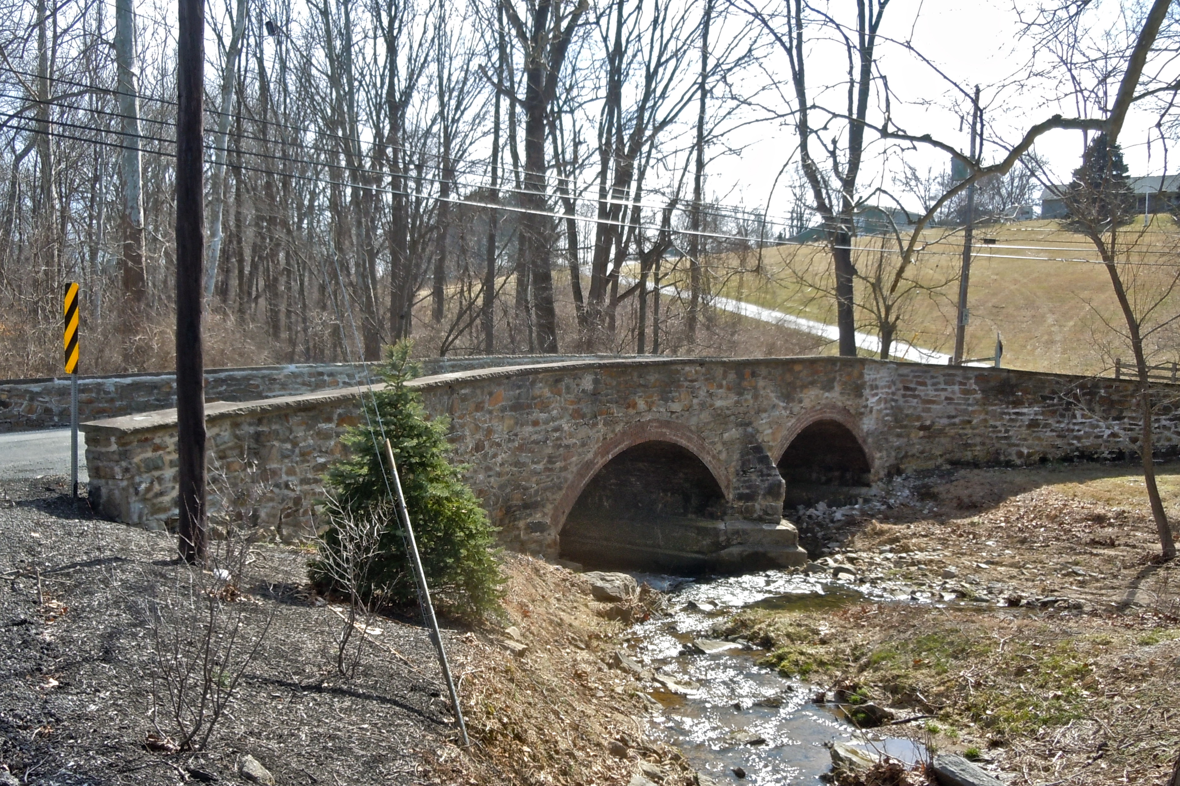 Marshall's Bridge on the NRHP since June 22, 1988 on Marshall Road over Culbertson Run in East Brandywine Township, Chester County, Pennsylvania. Right next to another NRHP site, Bridge Mill Farm.